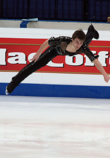 Brian Joubert at the 2009 European Championships.